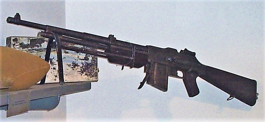 Light machine gun B.A.R wz. 1928 Part of image Image:Westerplatte wartownia nr 1 1.jpg Gdańsk Westerplatte, Poland